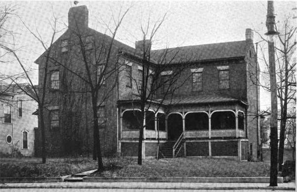 The James Park House in Knoxville, Tennessee, USA, photographed circa 1918. The house's foundation was laid by John Sevier in the 1790s. The house was built by James Park around 1812.